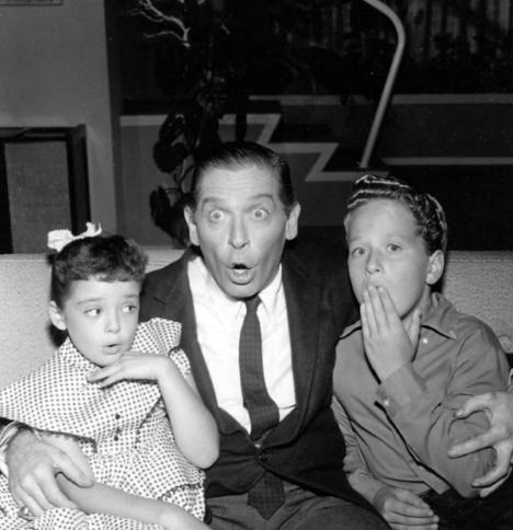 Publicity photo of Milton Berle with Angela Cartwright and Rusty Hamer from the television program Make Room for Daddy.